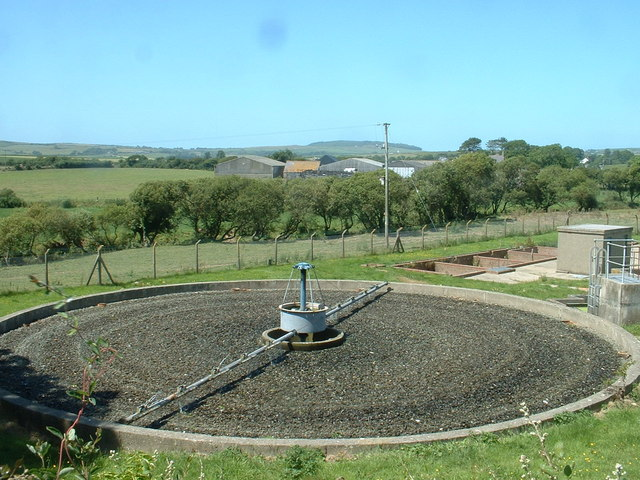 Sewage works. Hidden from the road, but the distinctive smell can't be hidden.